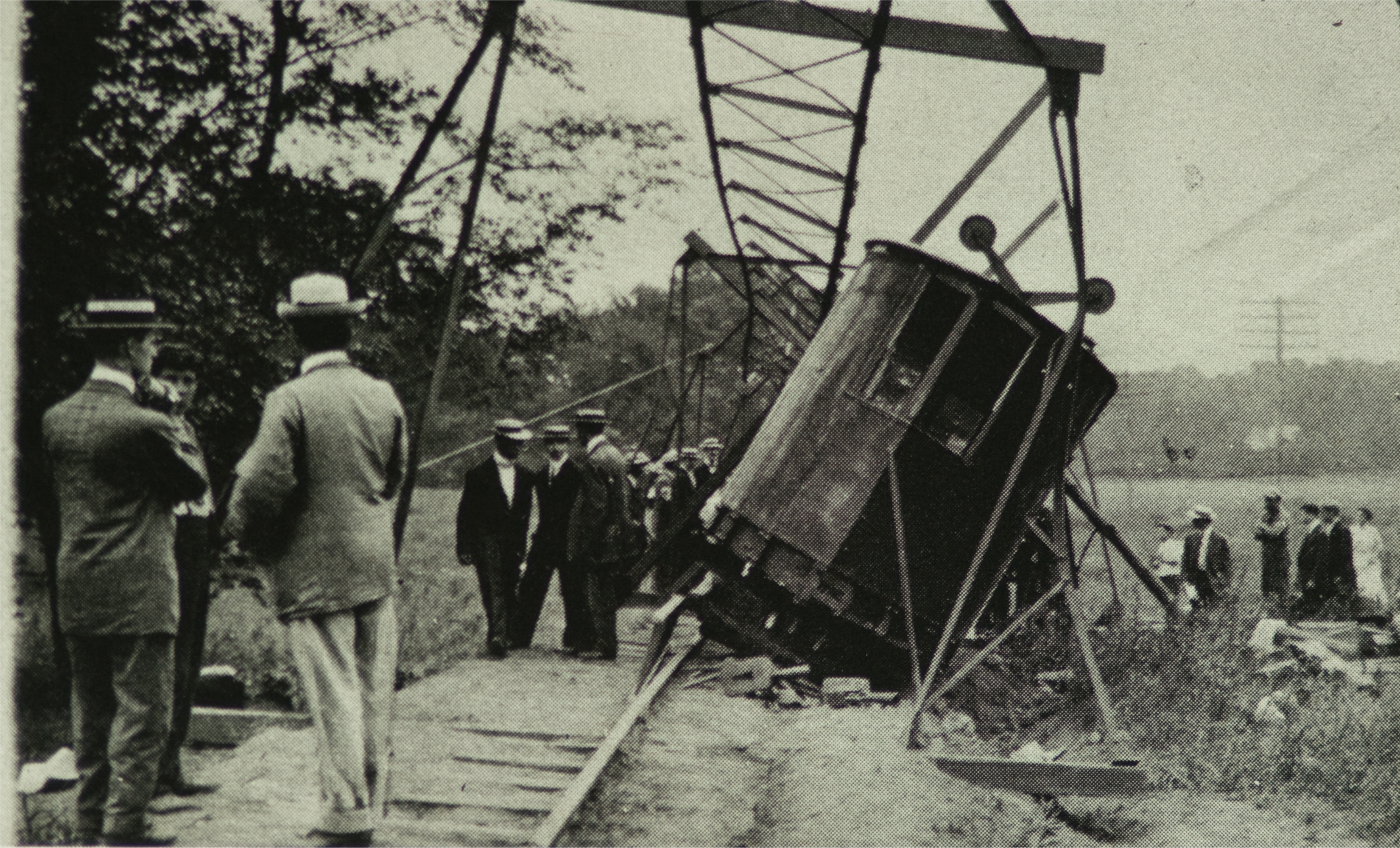 Derailment of Pelham Park Railroad Company monorail, July 16, 1910. Vehicle was nicknamed as "Flying Lady"